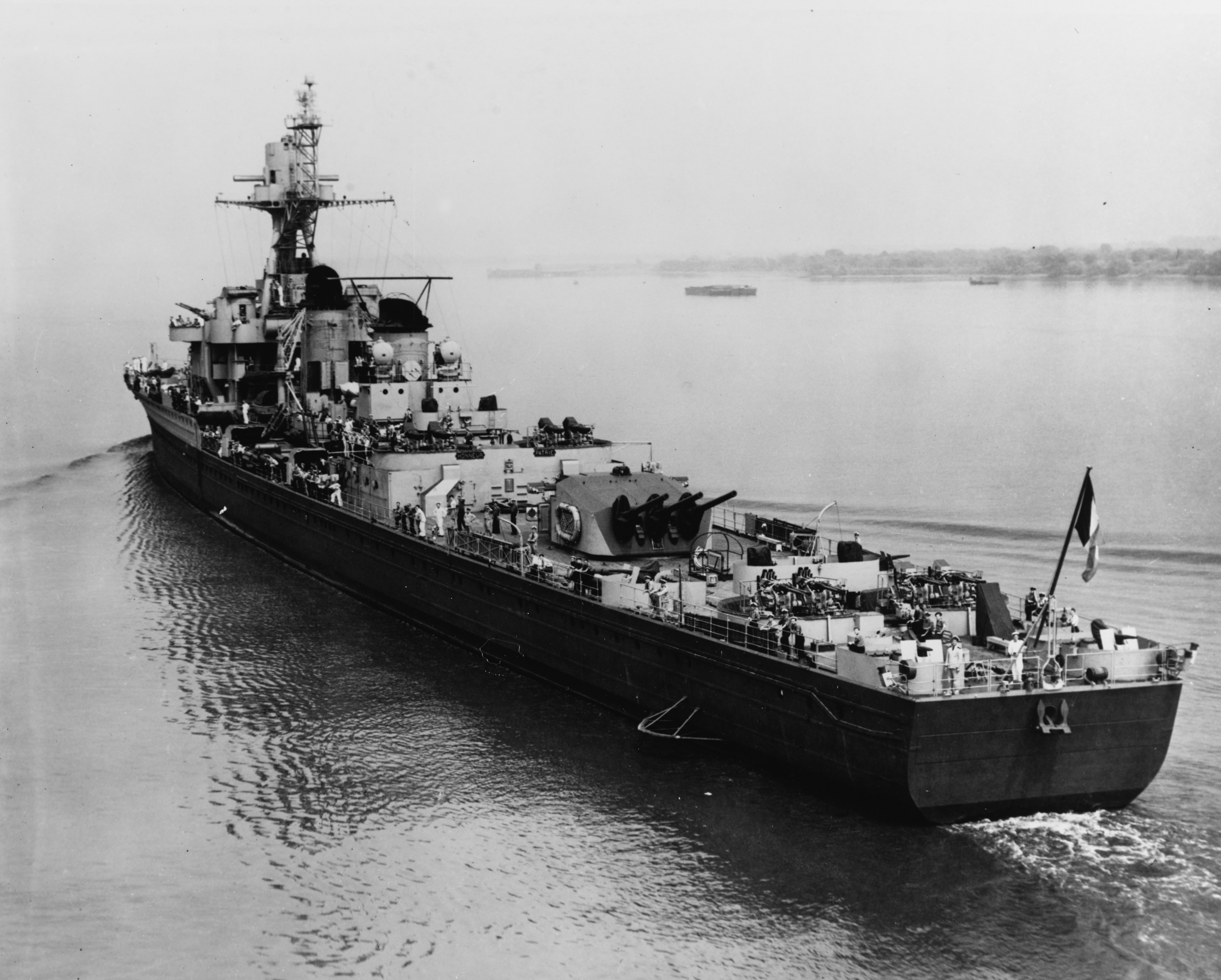 Title: Montcalm (French cruiser, 1935) Caption: Off the Philadelphia Navy Yard, Pennsylvania, 26 July 1943. She had just finished a refit at that Yard. Catalog #: 19-N-48999 Copyright Owner: National Archives Original Date: Mon, Jul 26, 1943